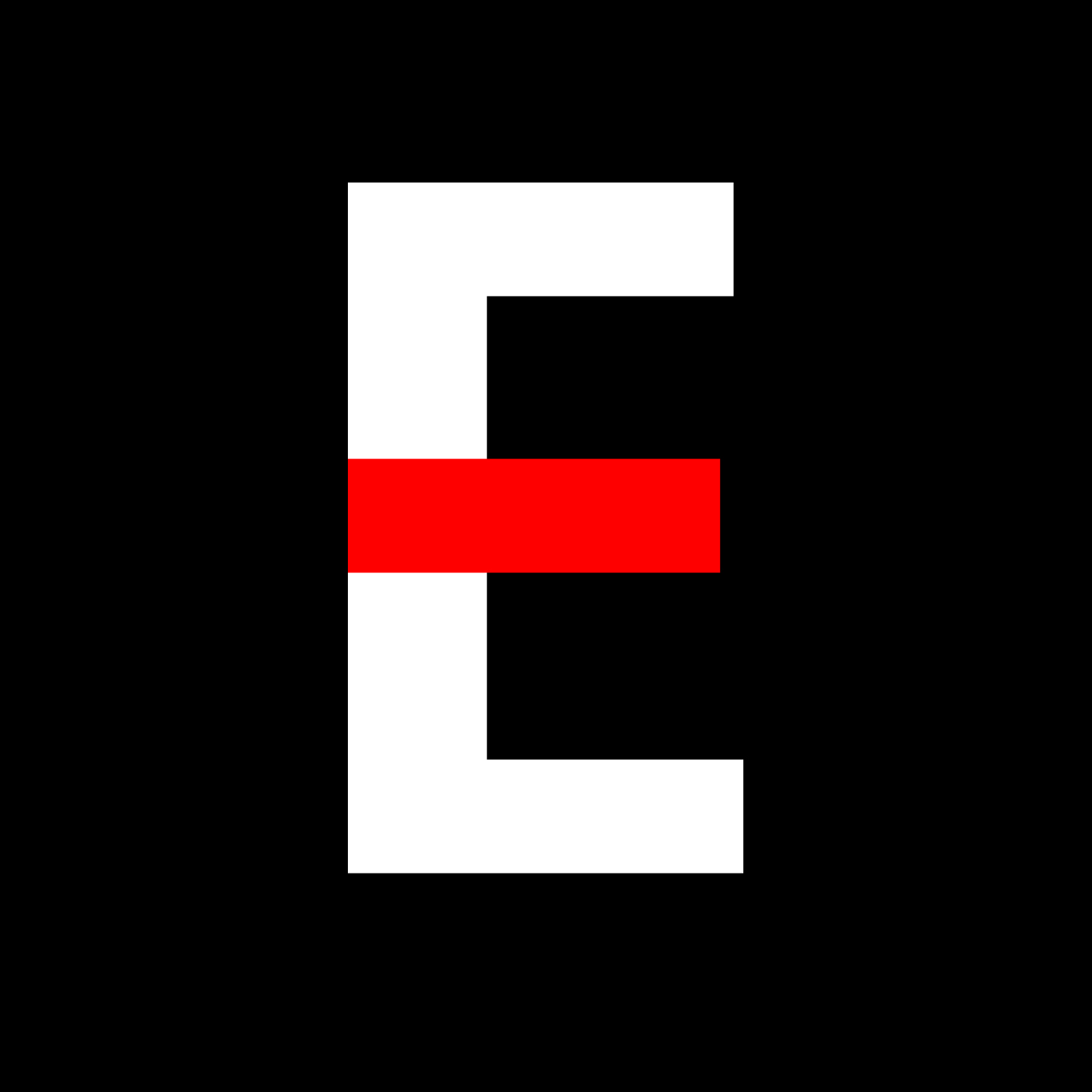 Enchufada Logo